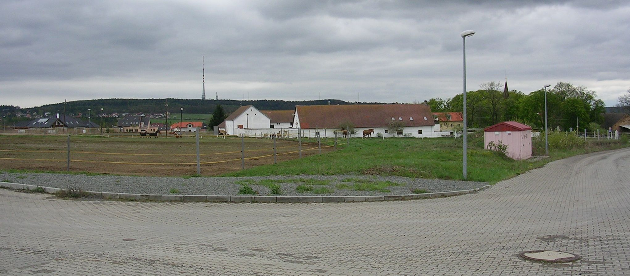 Trnová, Central Bohemian Region, the Czech Republic.